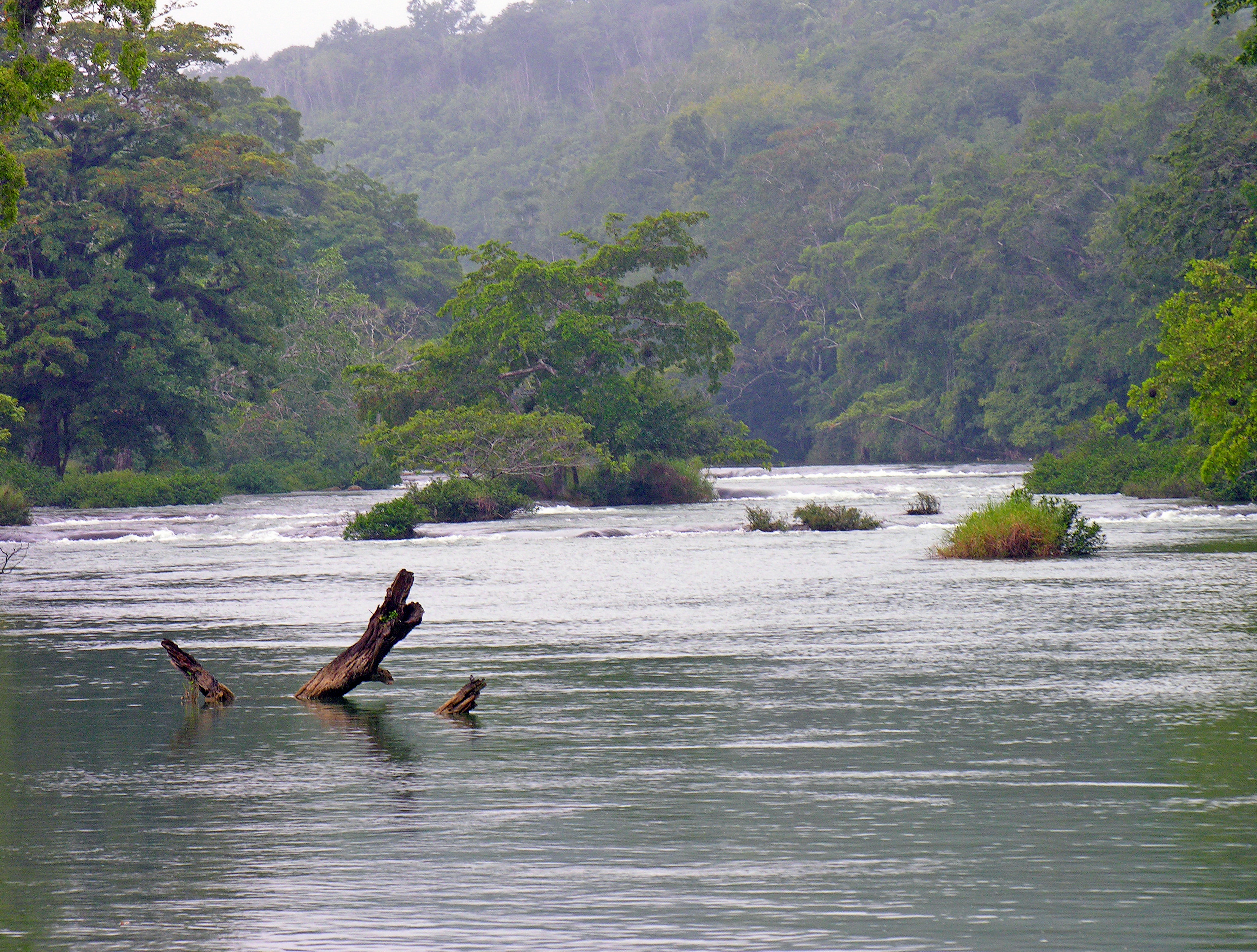 A small hand cranked ferry is used for crossing the Mopan River to get to Xunantunich.